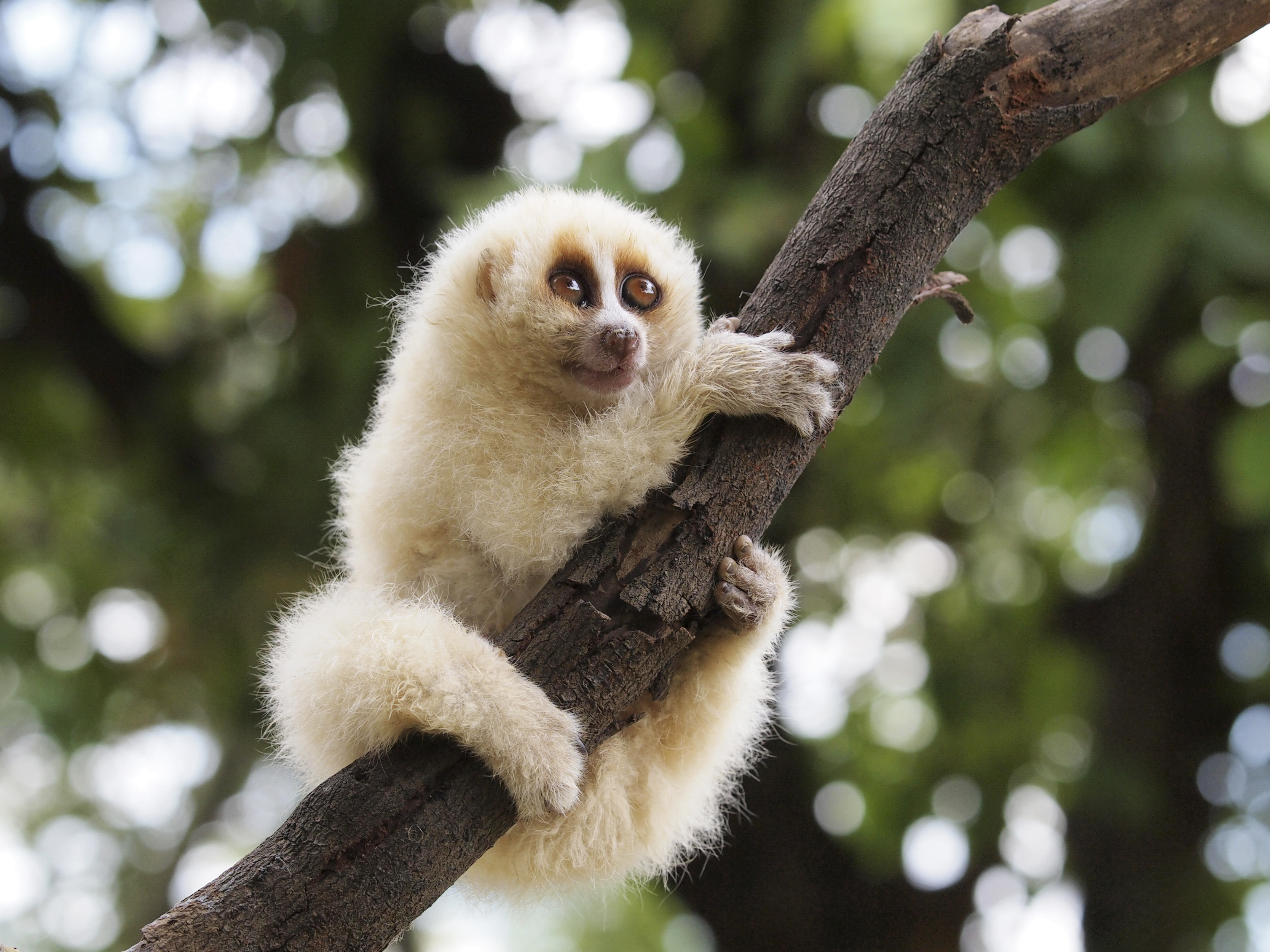 The Javan slow loris (Nycticebus javanicus) is a strepsirrhine primate and a species of slow loris native to the western and central portions of the island of Java, in Indonesia. Although originally described as a separate species, it was considered a subspecies of the Sunda slow loris (N. coucang) for many years, until reassessments of its morphology and genetics in the 2000s resulted in its promotion to full species status. It is most closely related to the Sunda slow loris and the Bengal slow loris (N. bengalensis). The species has two forms, based on hair length and, to a lesser extent, coloration.